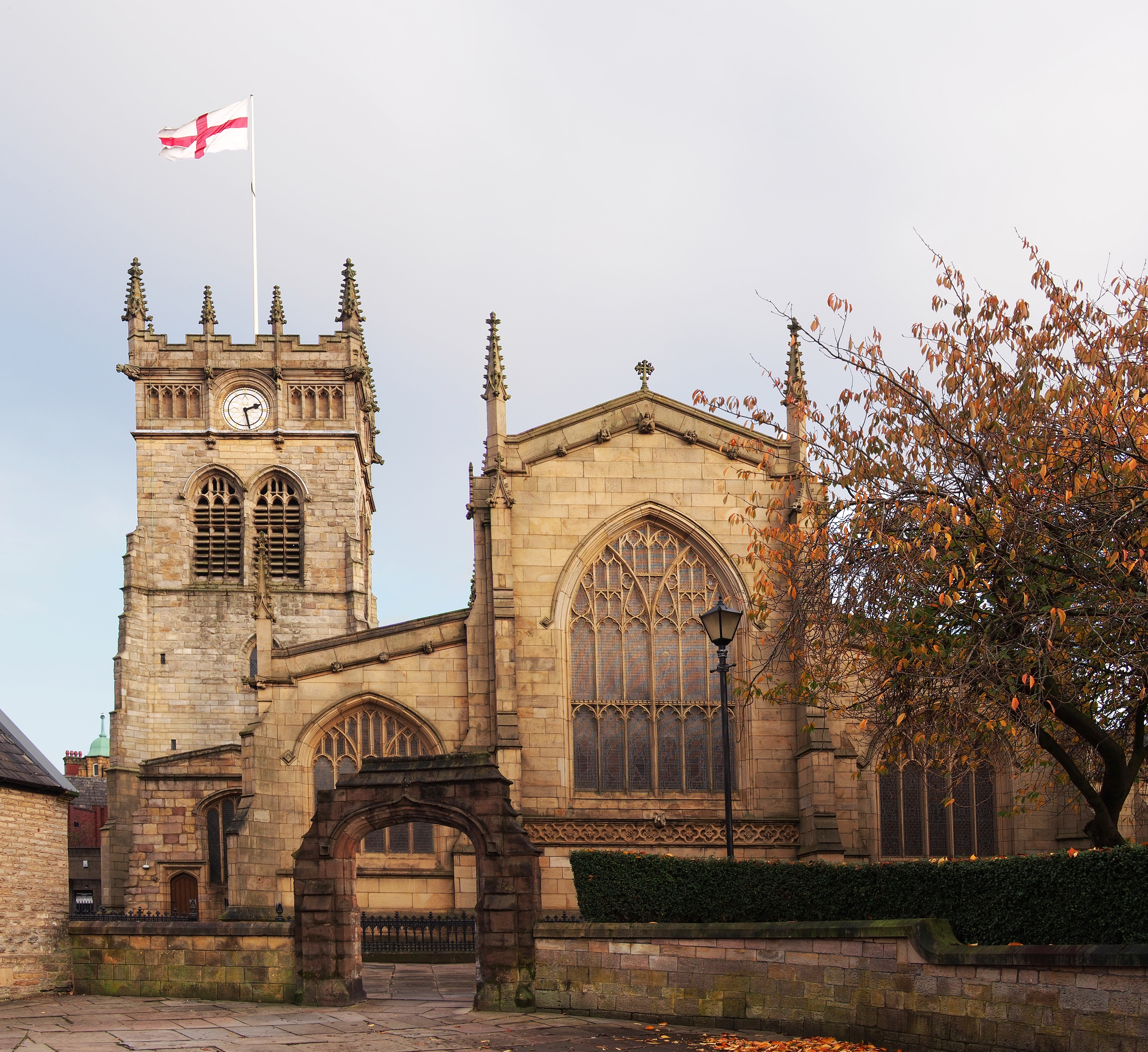 All Saints' parish church, Wigan, Greater Manchester, seen from the west